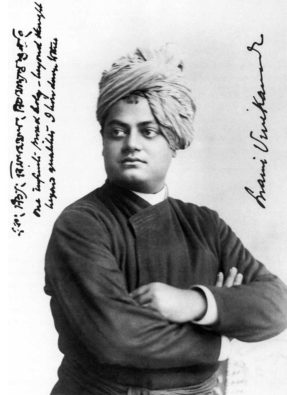 Higher detail image of Swami_Vivekananda.jpg Swami Vivekananda, September, 1893, Chicago, On the left Vivekananda wrote in his own handwriting: "one infinite pure and holy – beyond thought beyond qualities I bow down to thee"